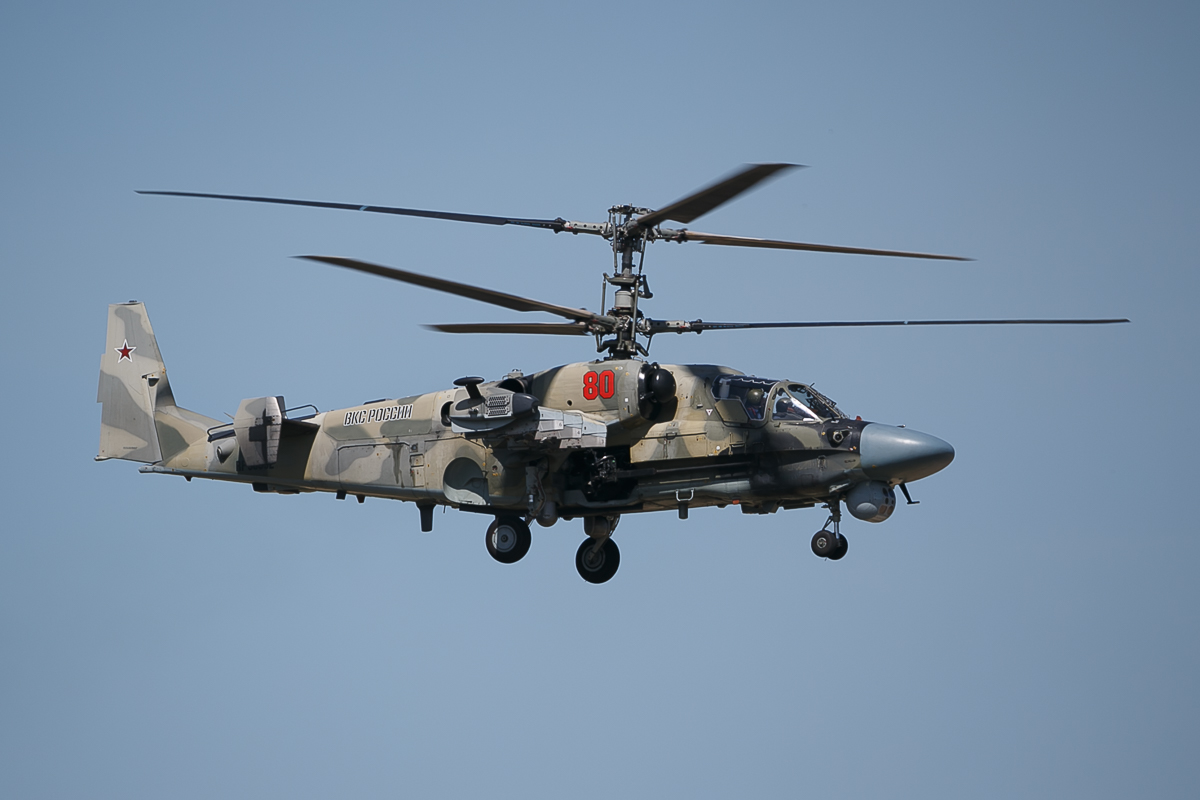 Kamov Ka-52.